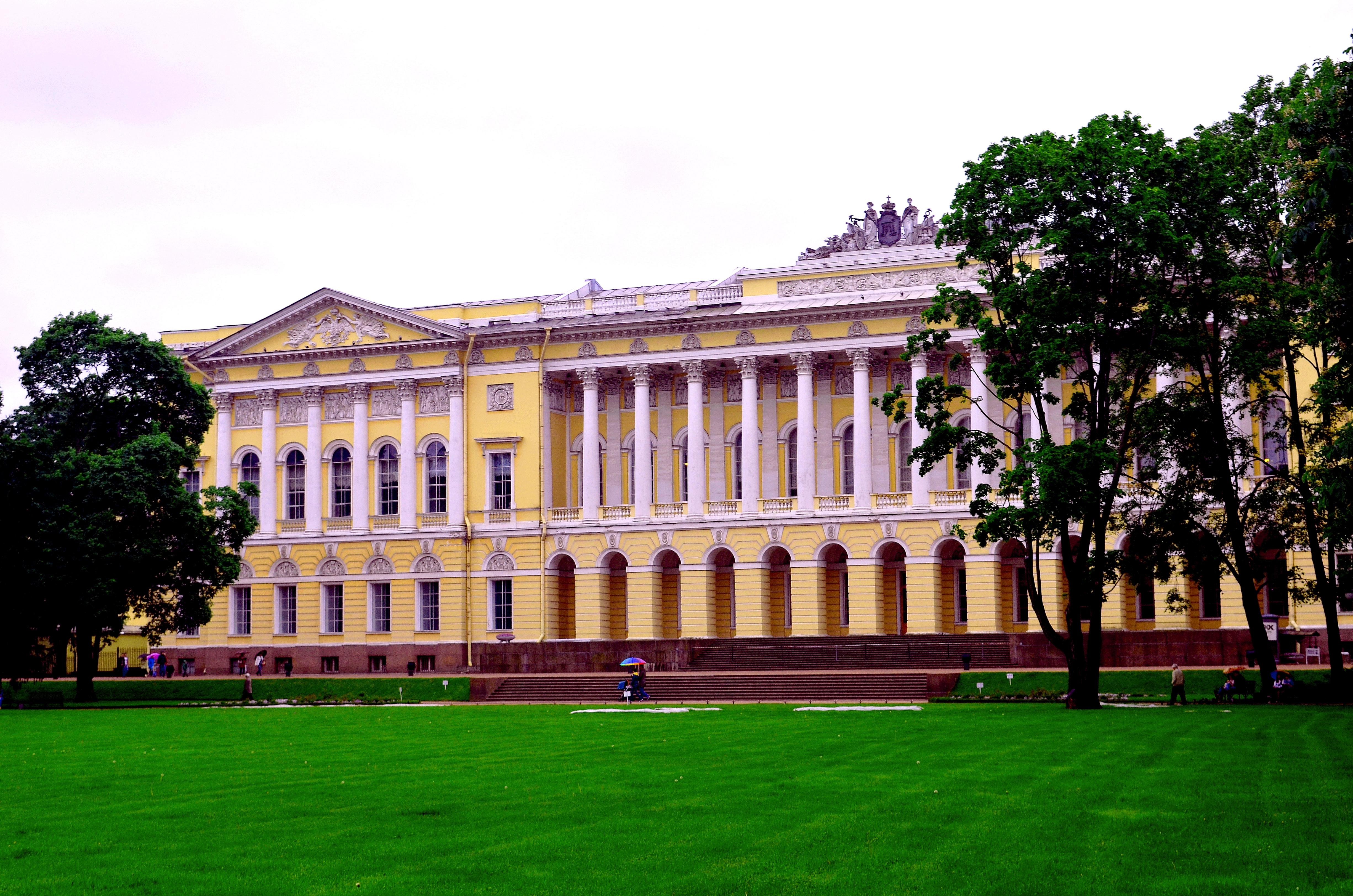 The Mikhailovsky Palace. Facade from the Mikhailovsky Garden: Inzhenernaya Street, 4. Central District, St. Petersburg.